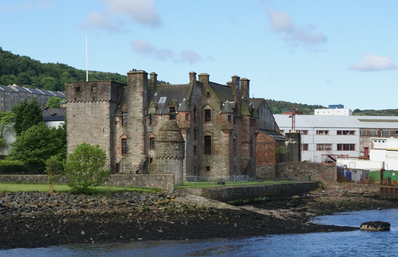 Newark Castle, Port Glasgow, Scotland - from north east